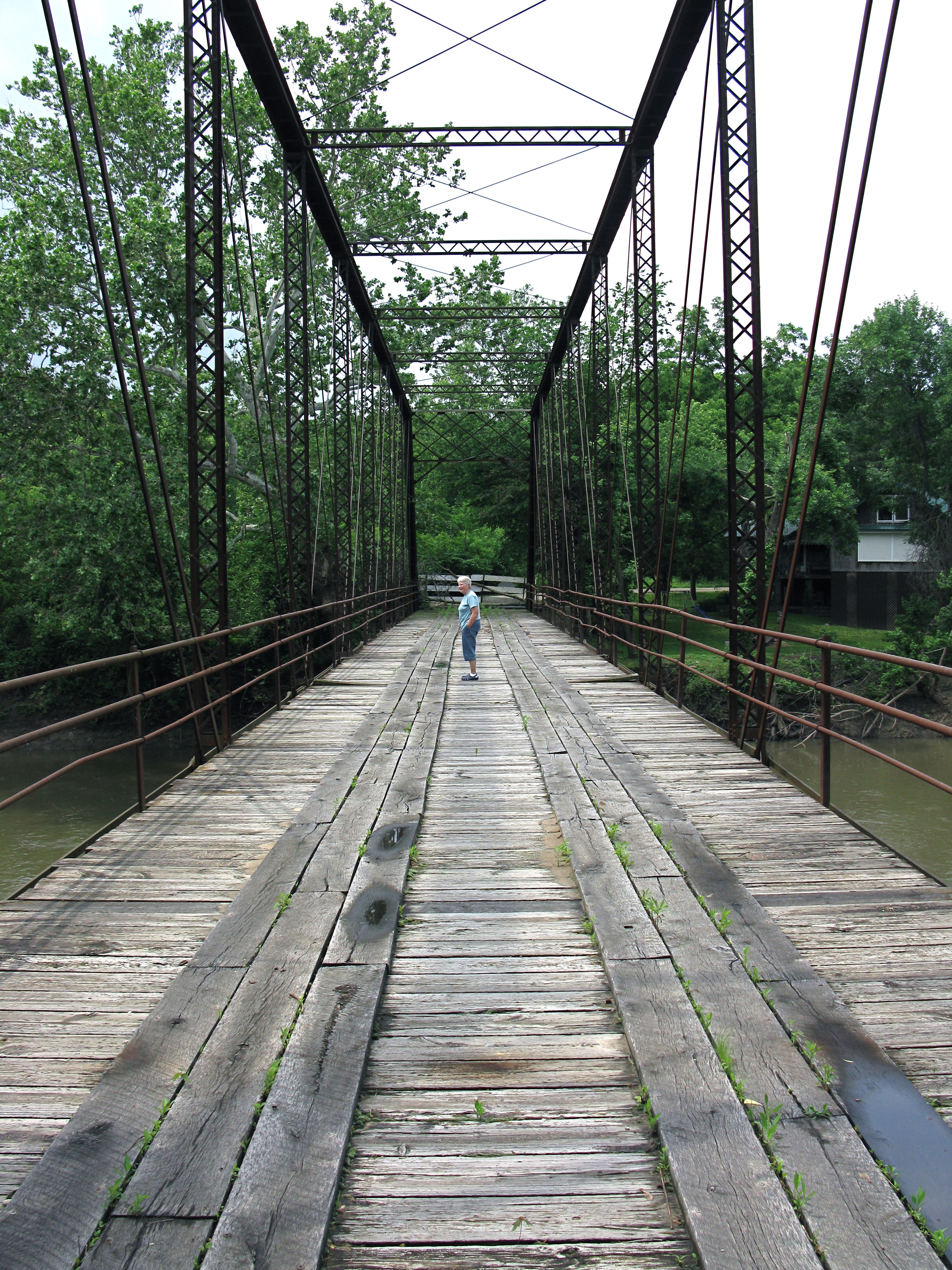 Lee Township, Fulton County, IL Through-truss bridge over Spoon River. Closed to all traffic.